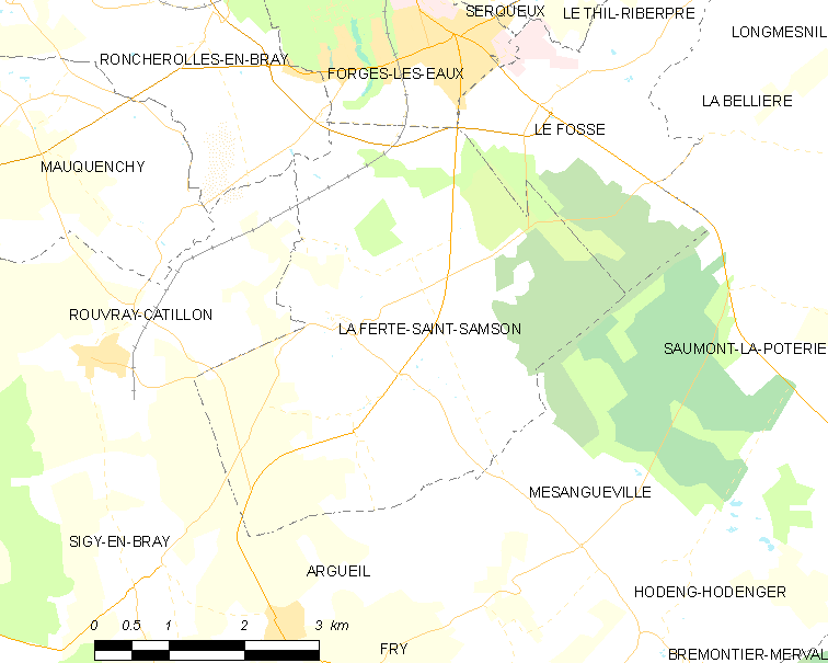 Map of French municipality La Ferté-Saint-Samson